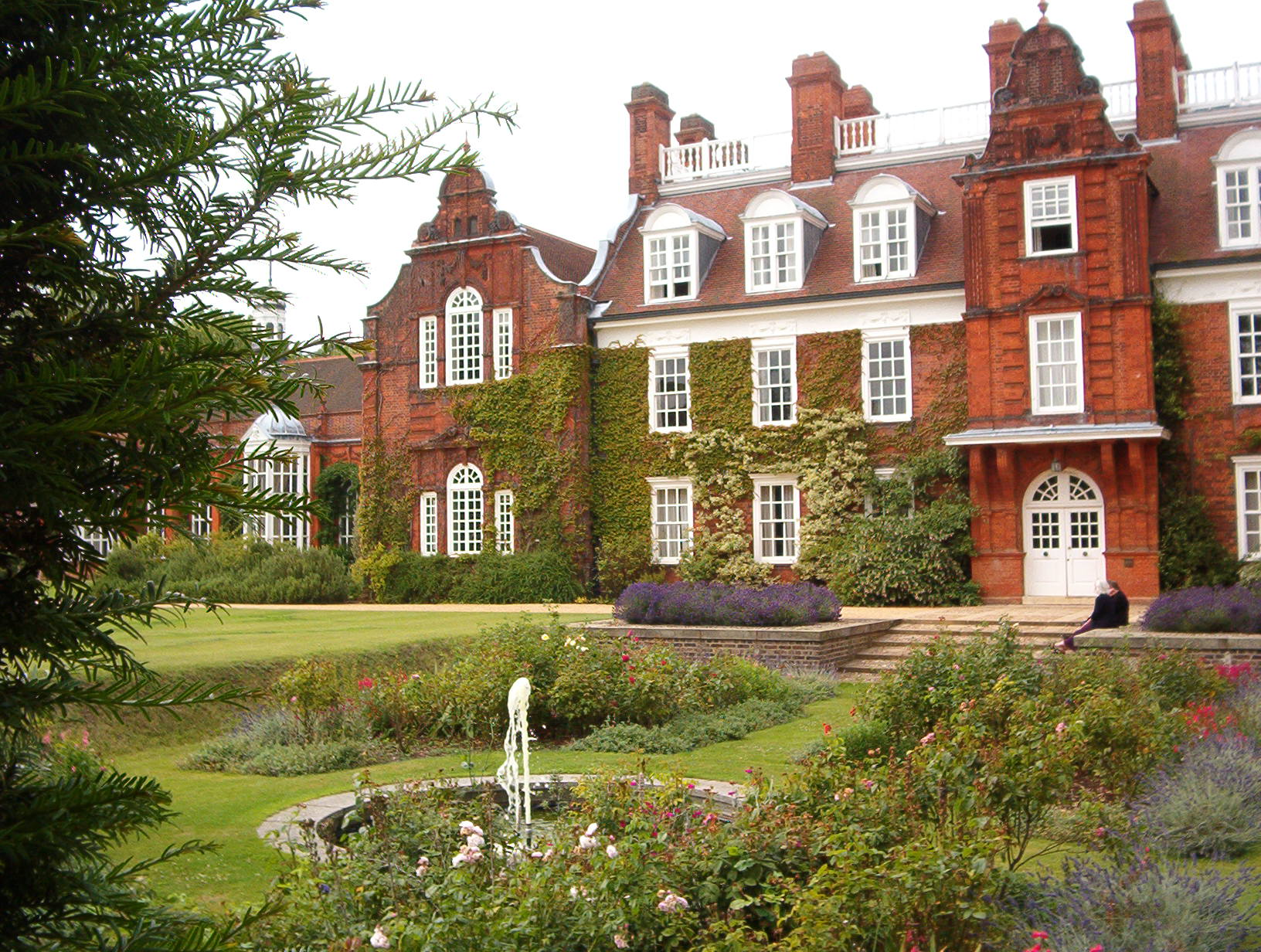 A daylight view of part of Newnham College, Cambridge. Photo by Azeira, July 2004. (original description) A daylight view of Sidgwick Hall and the sunken garden of Newnham College. (description from Newnham College, Cambridge)